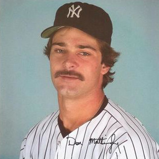 Professional baseball player Don Mattingly